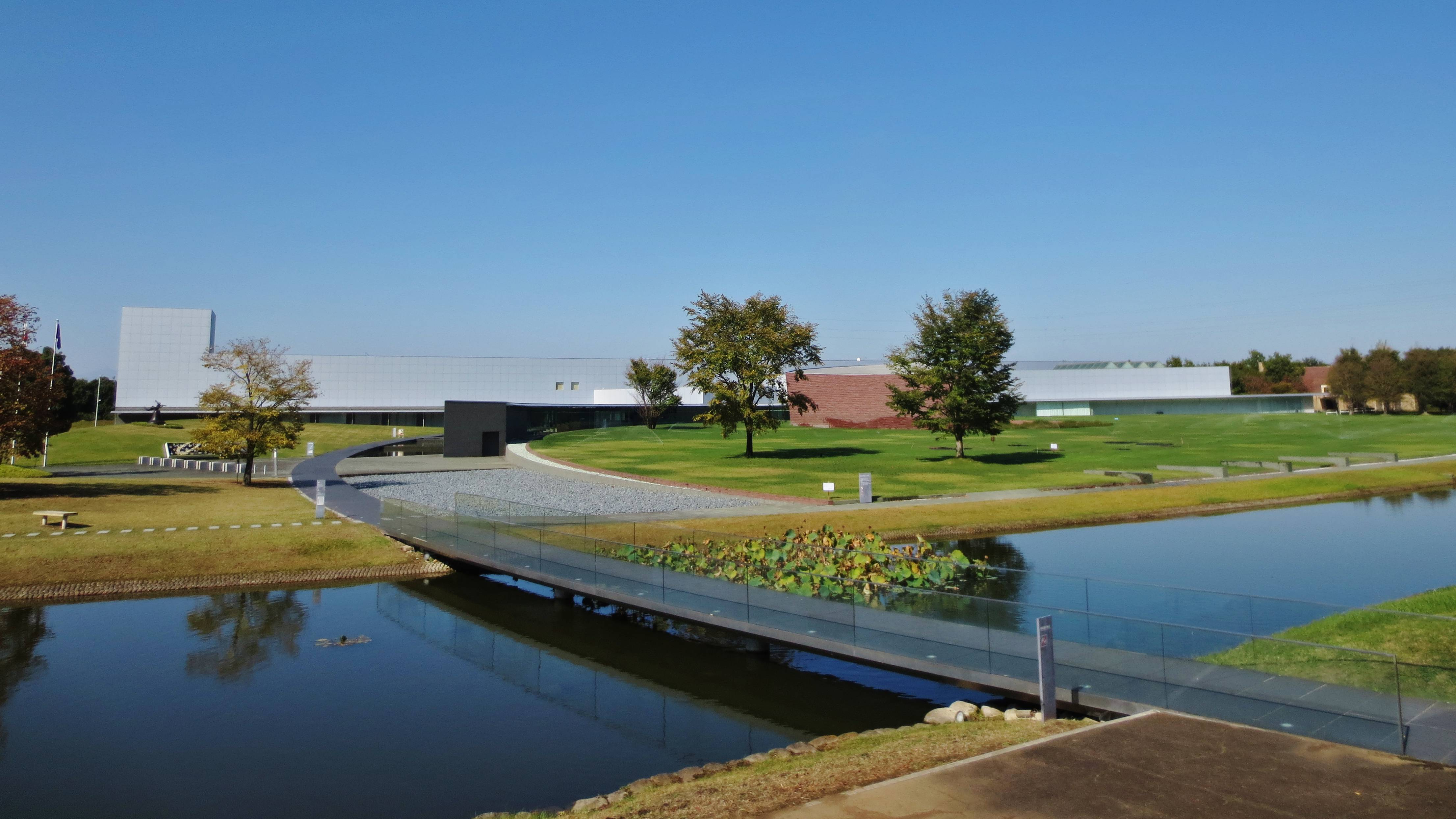 Gunma Museum of Art, Tatebayashi.